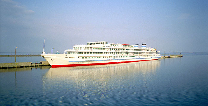 River cruise ship Semyon Budyonnyy (project 92-016) near Gorodets Hydraulic structure 1999